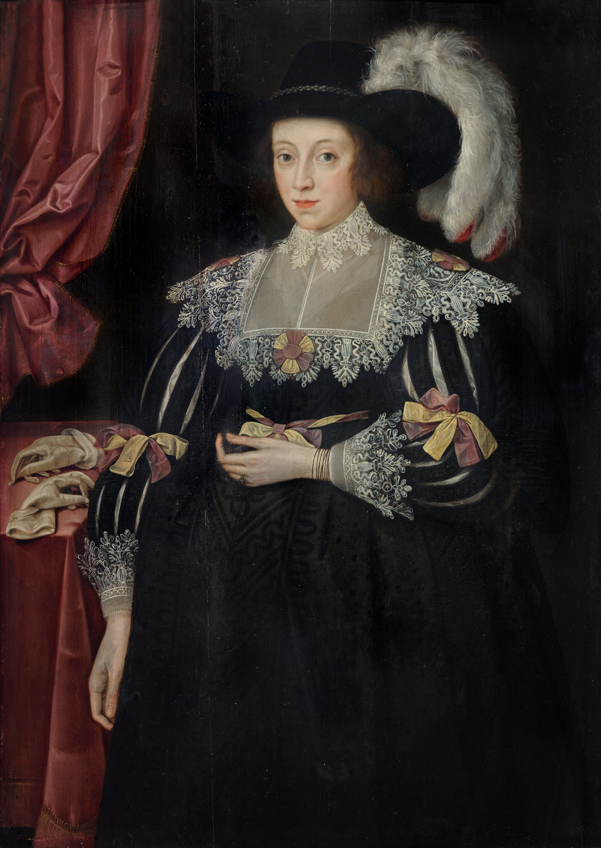 Portrait of Anne Fanshawe (1607–1628), First Wife of Thomas, 1st Viscount Fanshawe, painted by Marcus Gheeraerts the younger, circa 1628. Oil on oak panel, 111.5 cm x 98 cm. Courtesy of the collection of Valence House Museum, Dagenham.